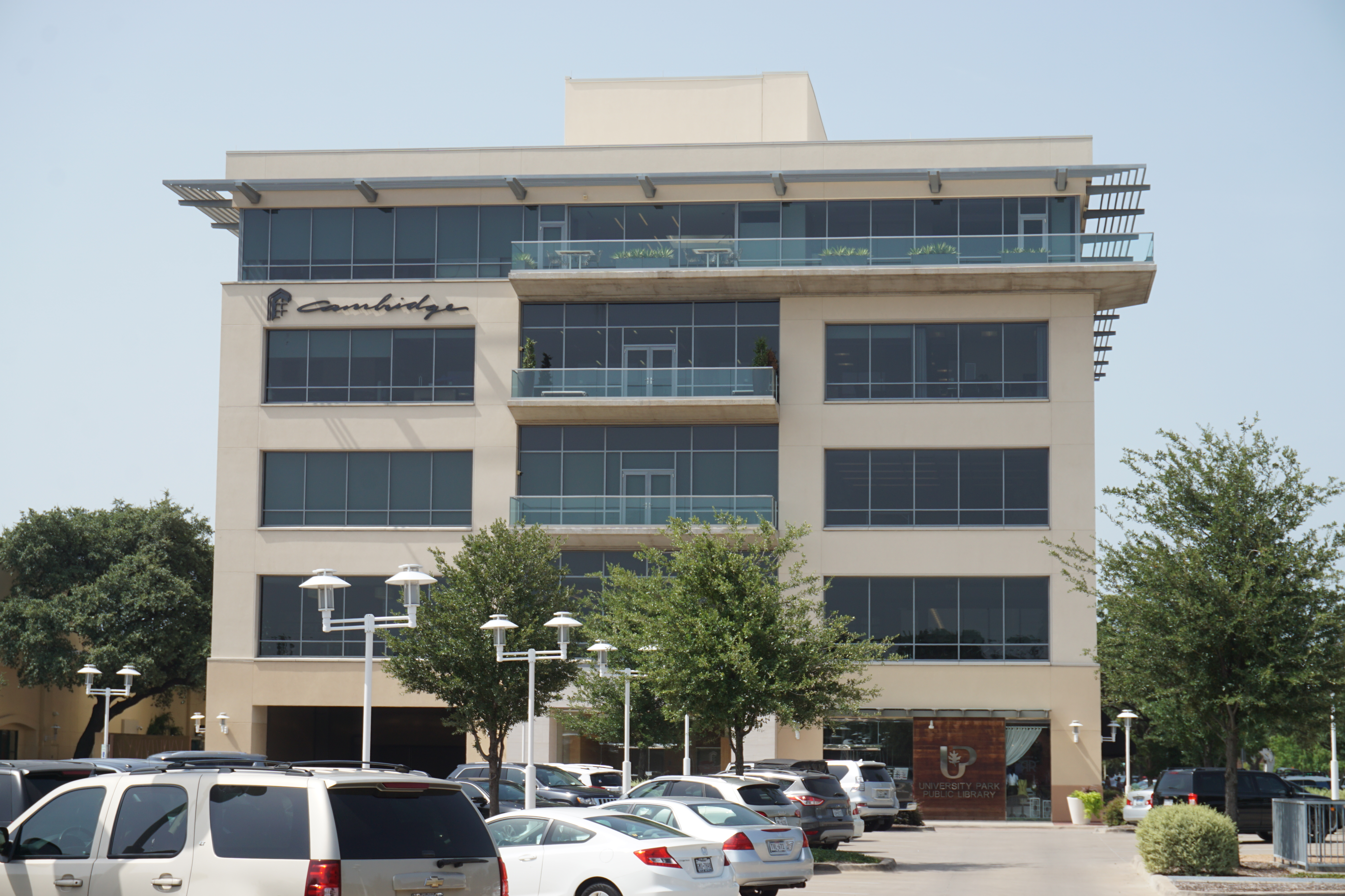 The University Park Public Library in University Park, Texas (United States).